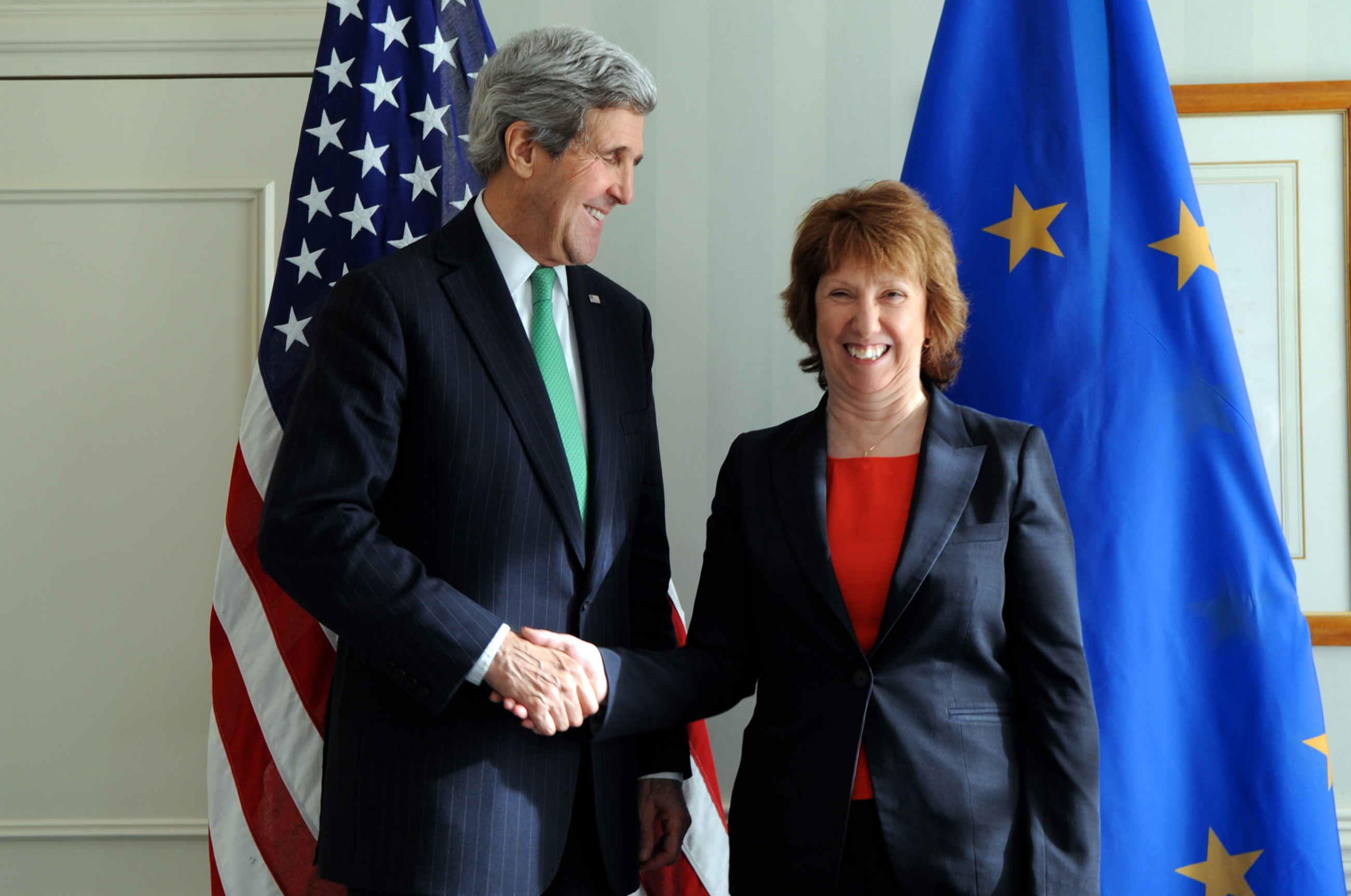 U.S. Secretary of State John Kerry shakes hands with European Union High Representative for Foreign Affairs Catherine Ashton before a bilateral discussion on the sidelines of the Munich Security Conference in Munich, Germany, on February 1, 2014. [State Department photo / Public Domain]